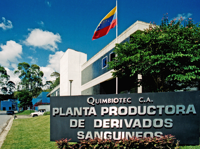 Fachada de QUIMBIOTEC